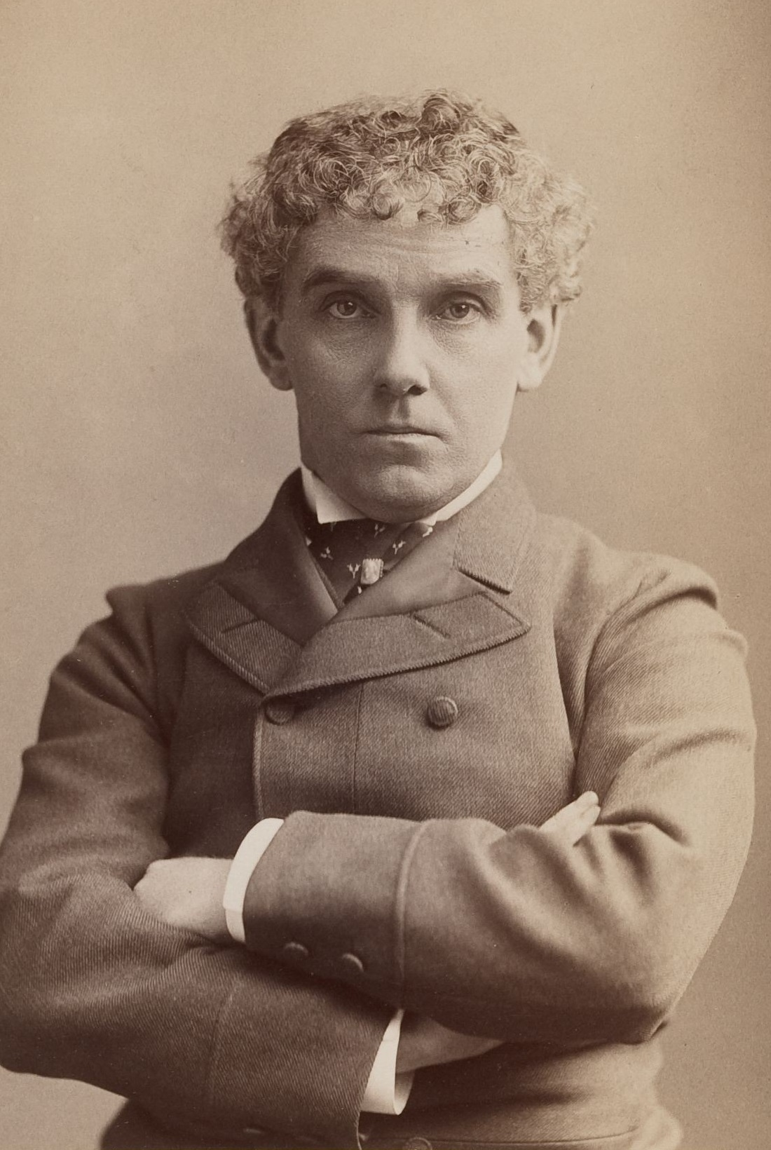 Cabinet card image of American stage actor Lawrence Barrett (1838-1891). Cropped version. TCS 1.1357, Harvard Theatre Collection, Harvard University